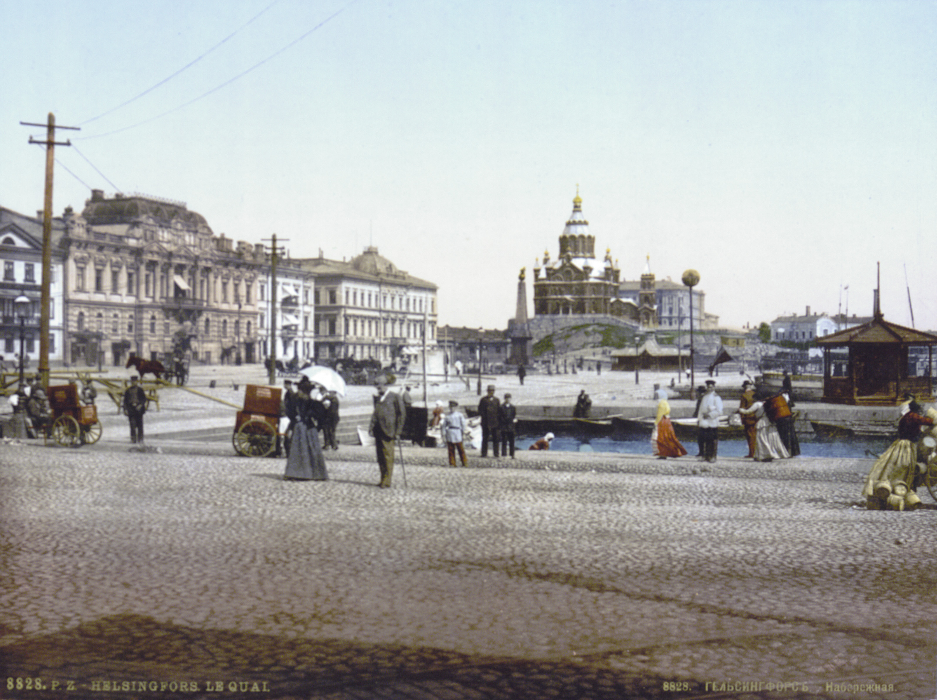 Market Square, Helsinki ca. 1890–1900. Uspenski Cathedral in the background.